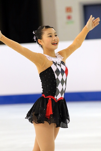 Photos – Junior World Championships 2016 – Ladies (Yuna SHIRAIWA JPN – 4th Place)